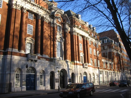 British Medical Association headquarters